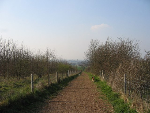 The Dogwalk at Gog Magog Downs This stretch of the path runs along the A1307. On the horizon can be seen the southern outskirts of Cambridge, with the tall chimney of Addenbrooke's hospital.